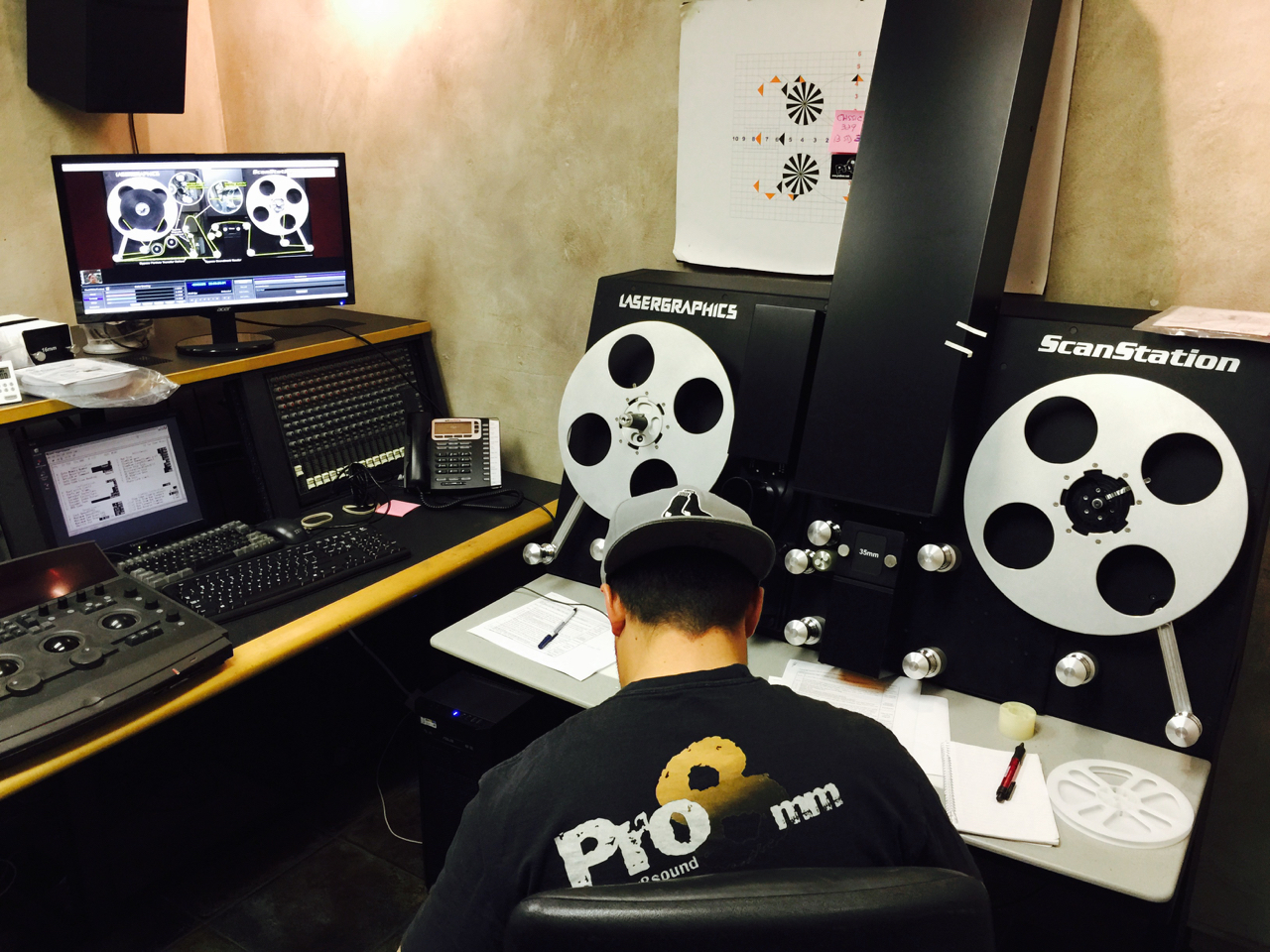 Data Scan Super 8 Film in 2K, 4K and 5K